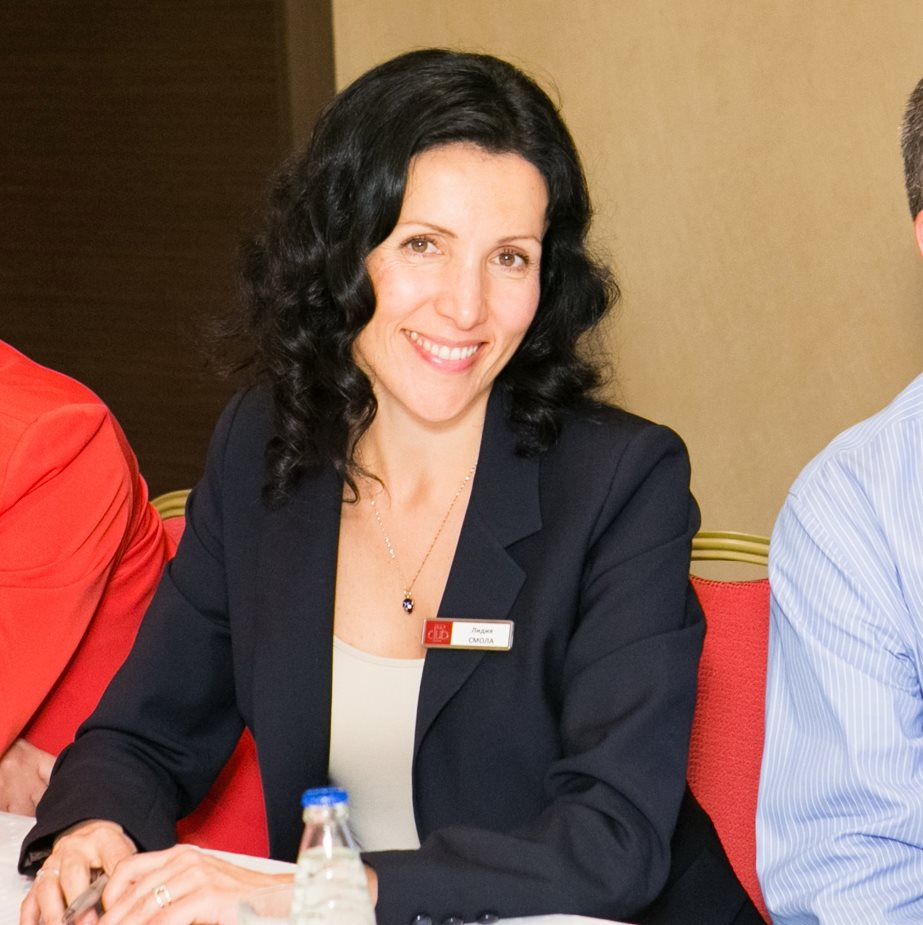 Lidiya Smola